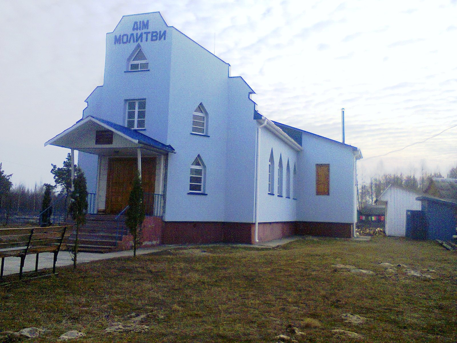 Pentecostal church in Zabolottia